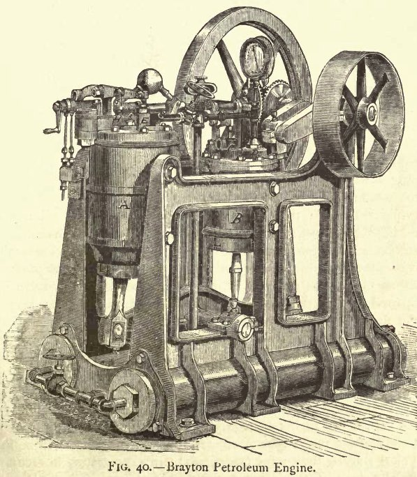 Early Brayton engine lithograph taken from Dugald Clerk's 1886 book "Oil and Gas Engines" - available without copyright on the internet. The image probably dates to 1873, but even if that is incorrect then Dugald Clerk died in 1932 hence categorised as : .